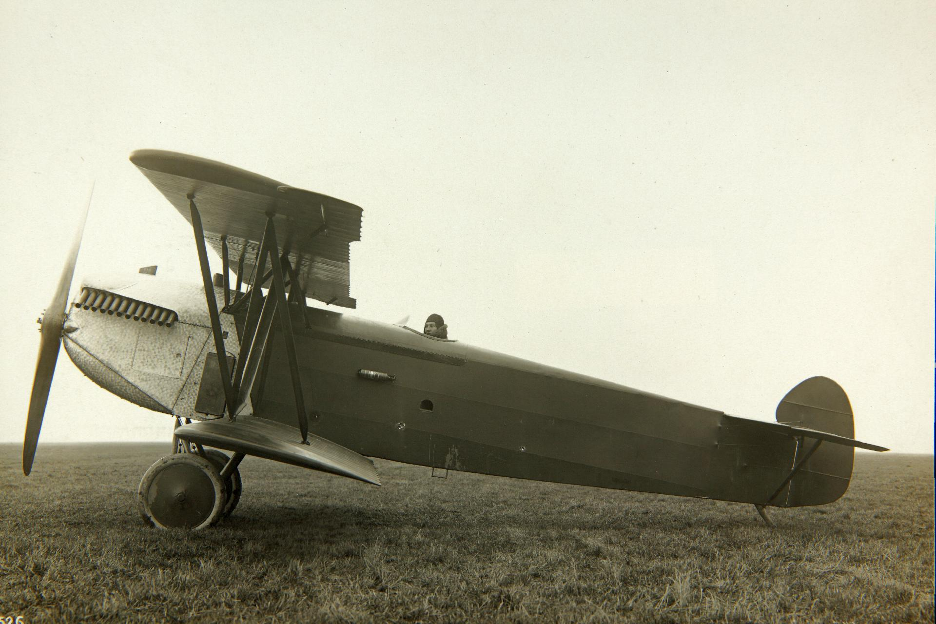 Fokker D.XII